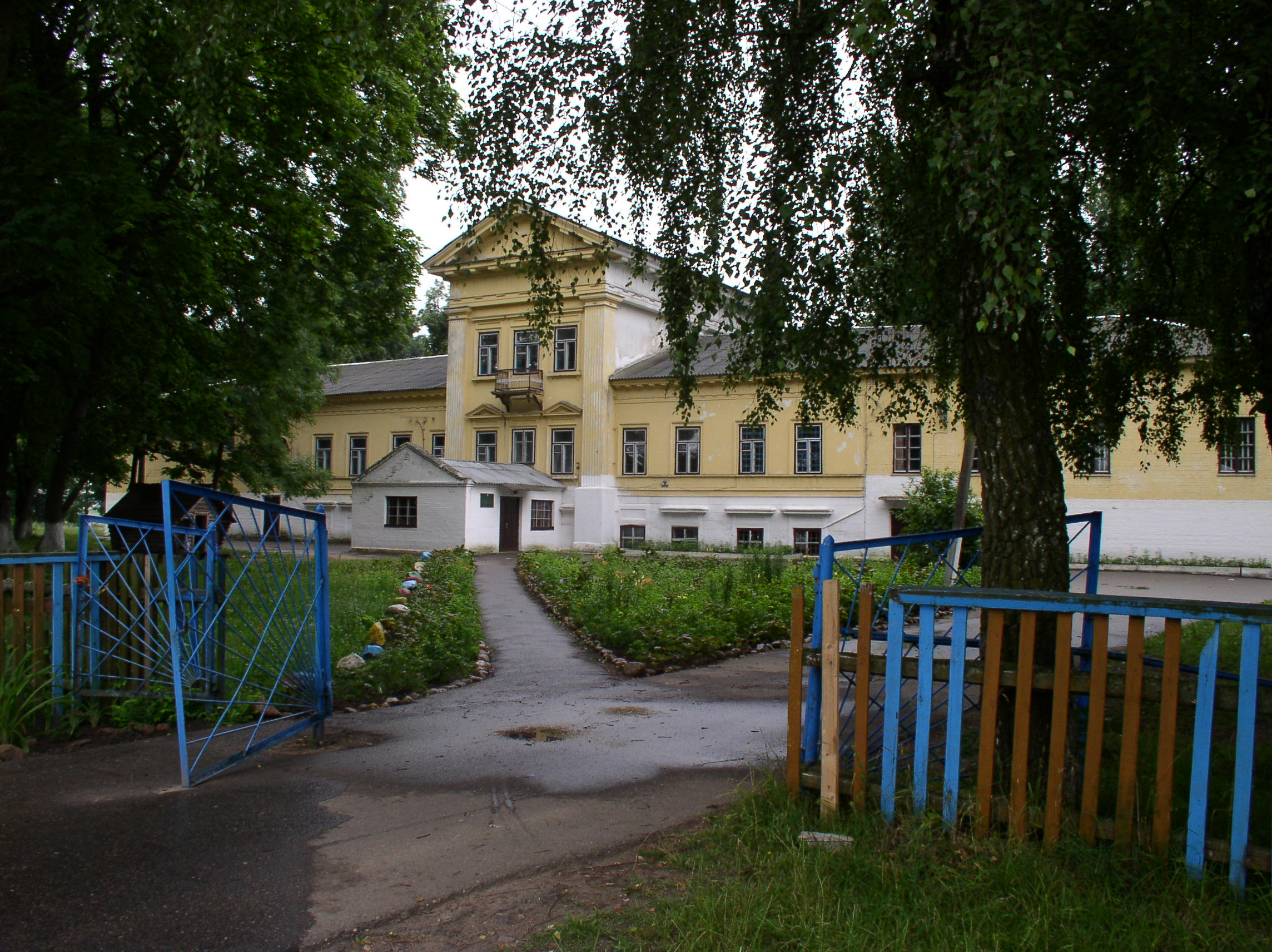 Brakhotski family manor. Palace. Vyaliki Dvor, Belarus.